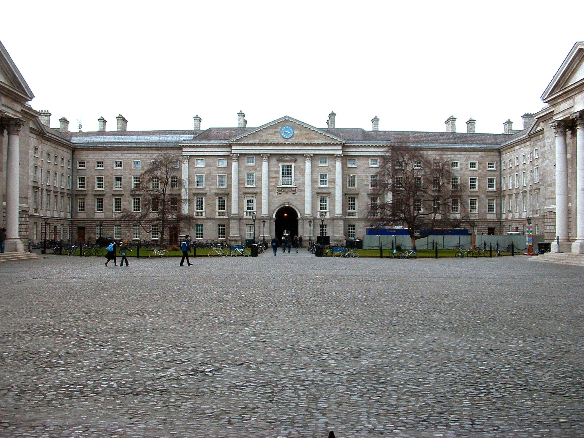 Front Square, Trinity College, Dublin, Ireland